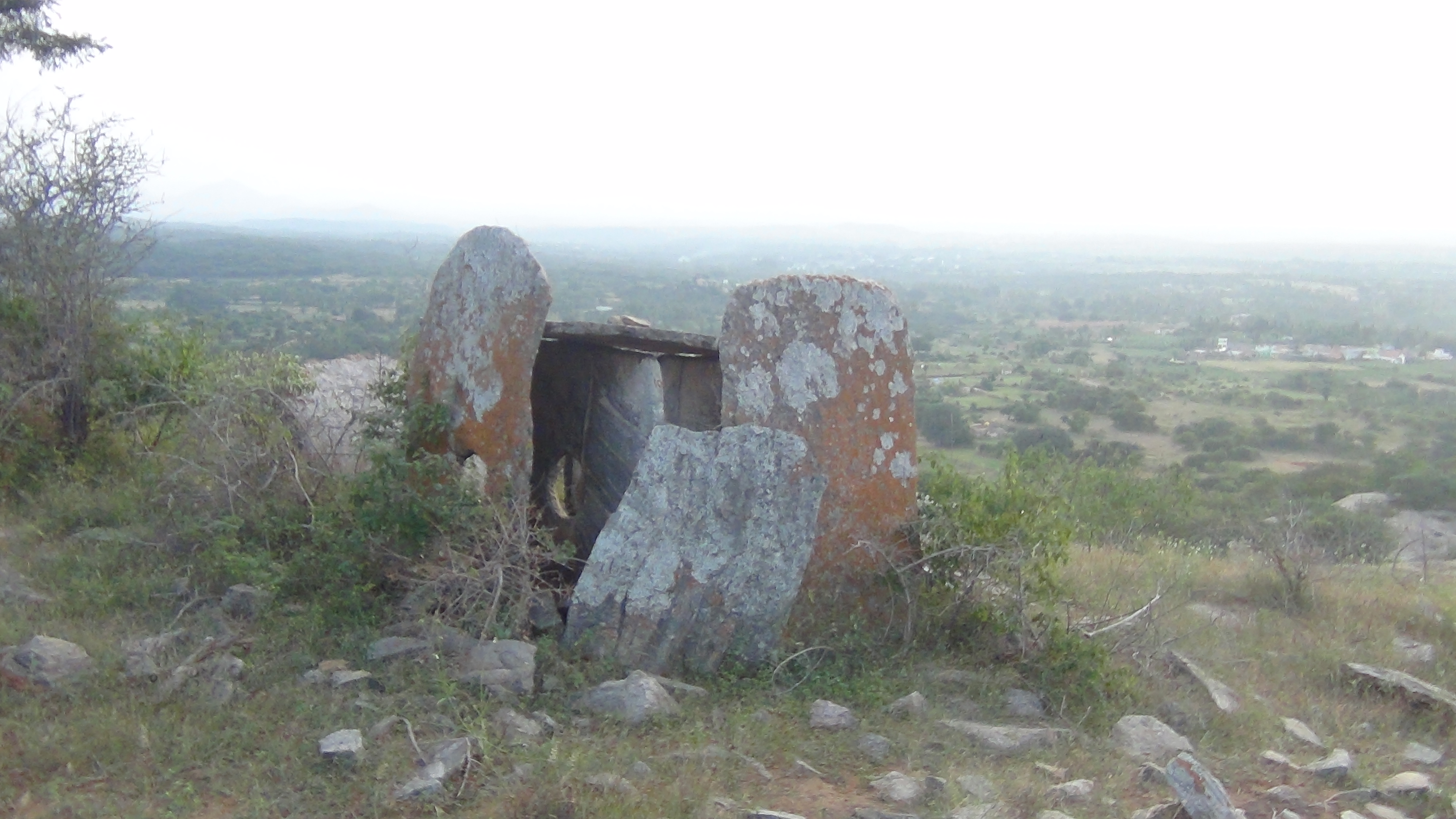 Megalithic dolmen with rock art in Mallachandram Krishnagiri-Tamilnadu india. It was constructed above 2500 years. Earliest Architectural form of Tamil country.